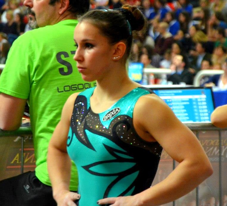 Erika Fasana. Padua, 23rd february 2013